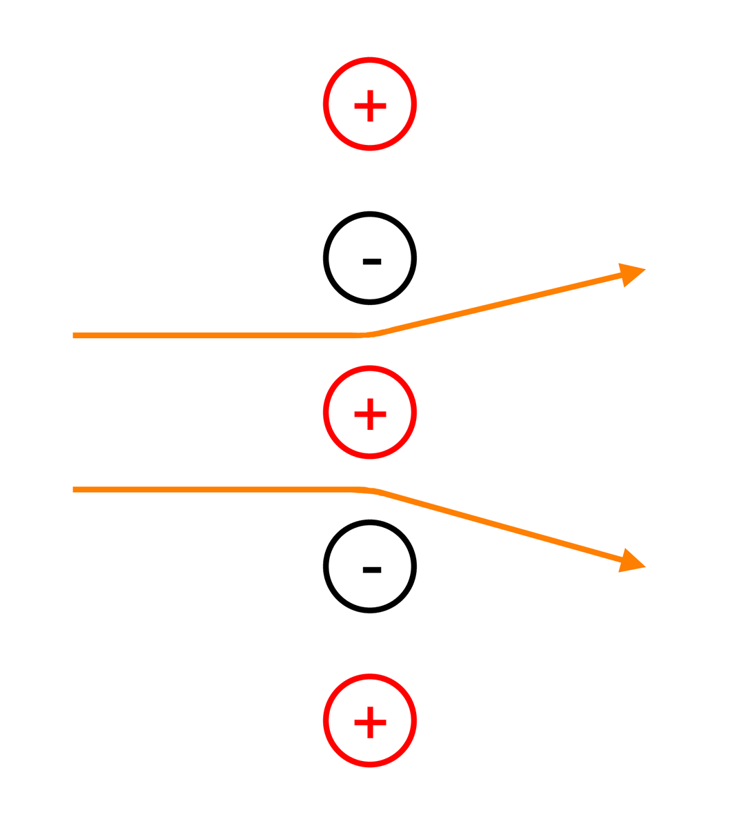 Bradbury-Nielsen charged particle shutter schematic - on (deflecting particles)